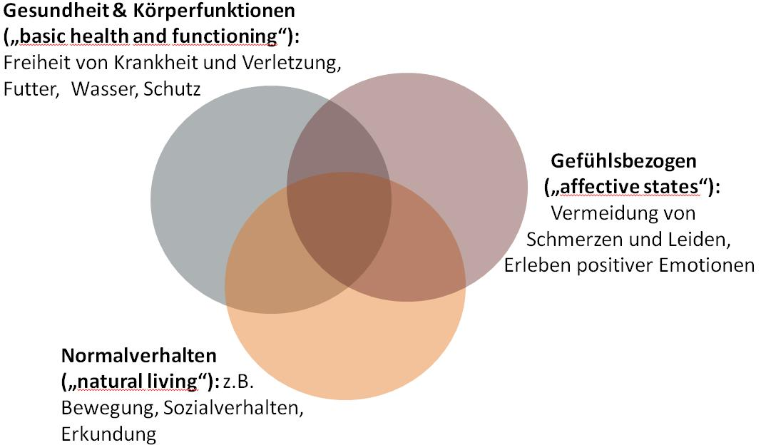 3 Dimensionen der Tiergerechtheit